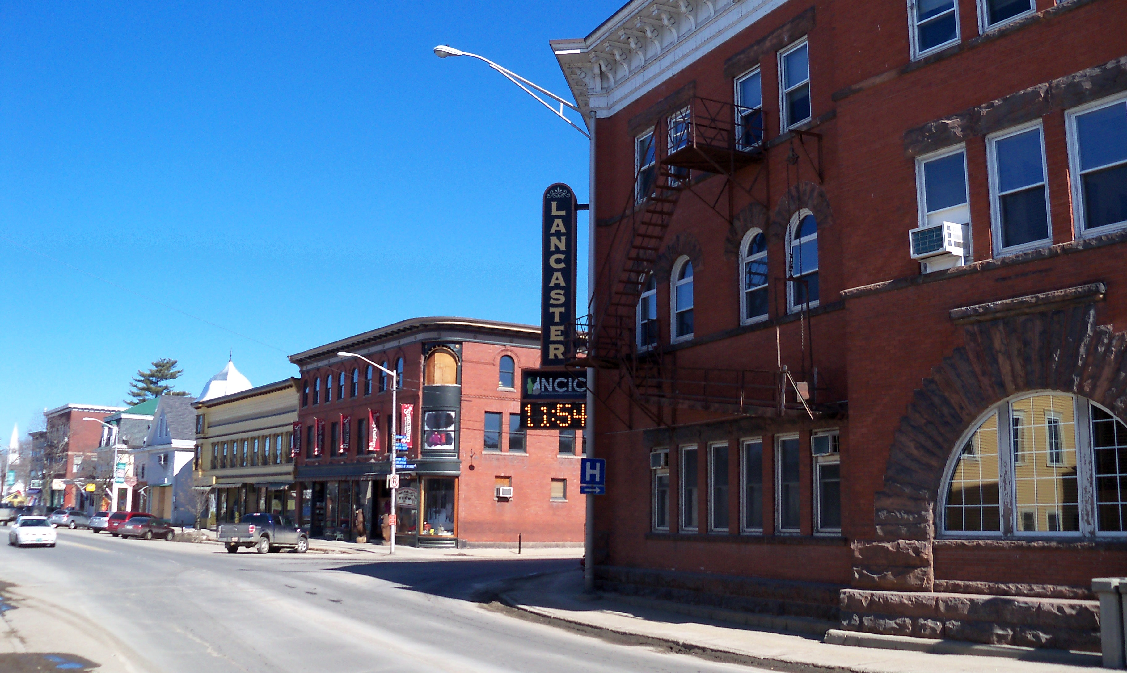 Downtown Lancaster, New Hampshire, USA.